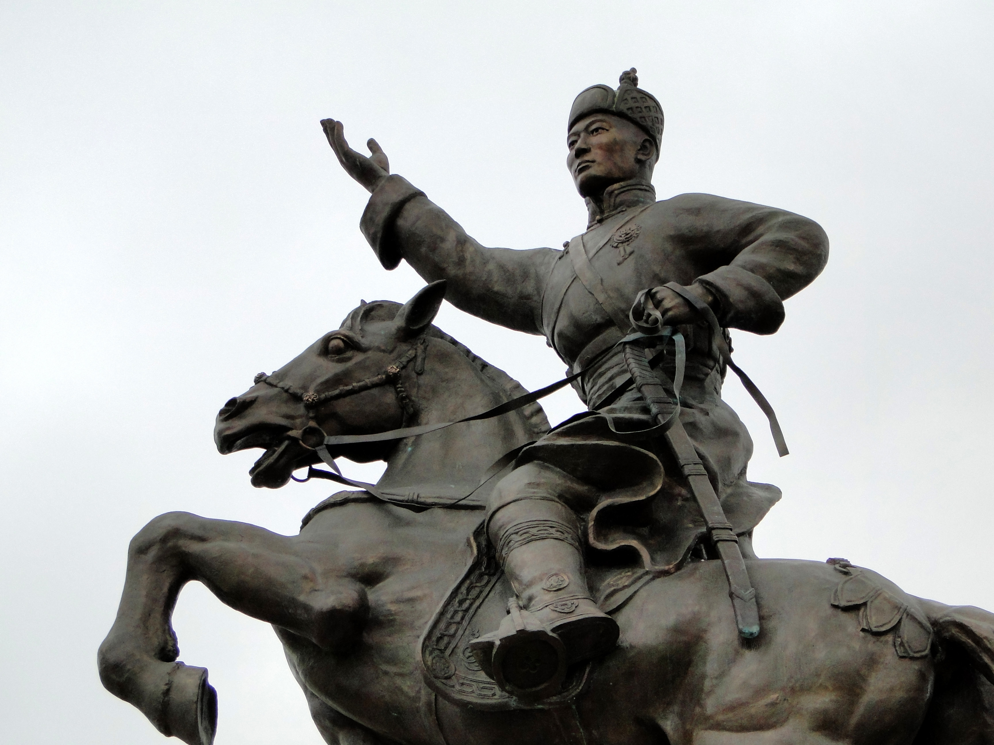 A Mongolian military leader in 1921 revolution, is remembered as one of the most important figures in Mongolia's struggle for independence.